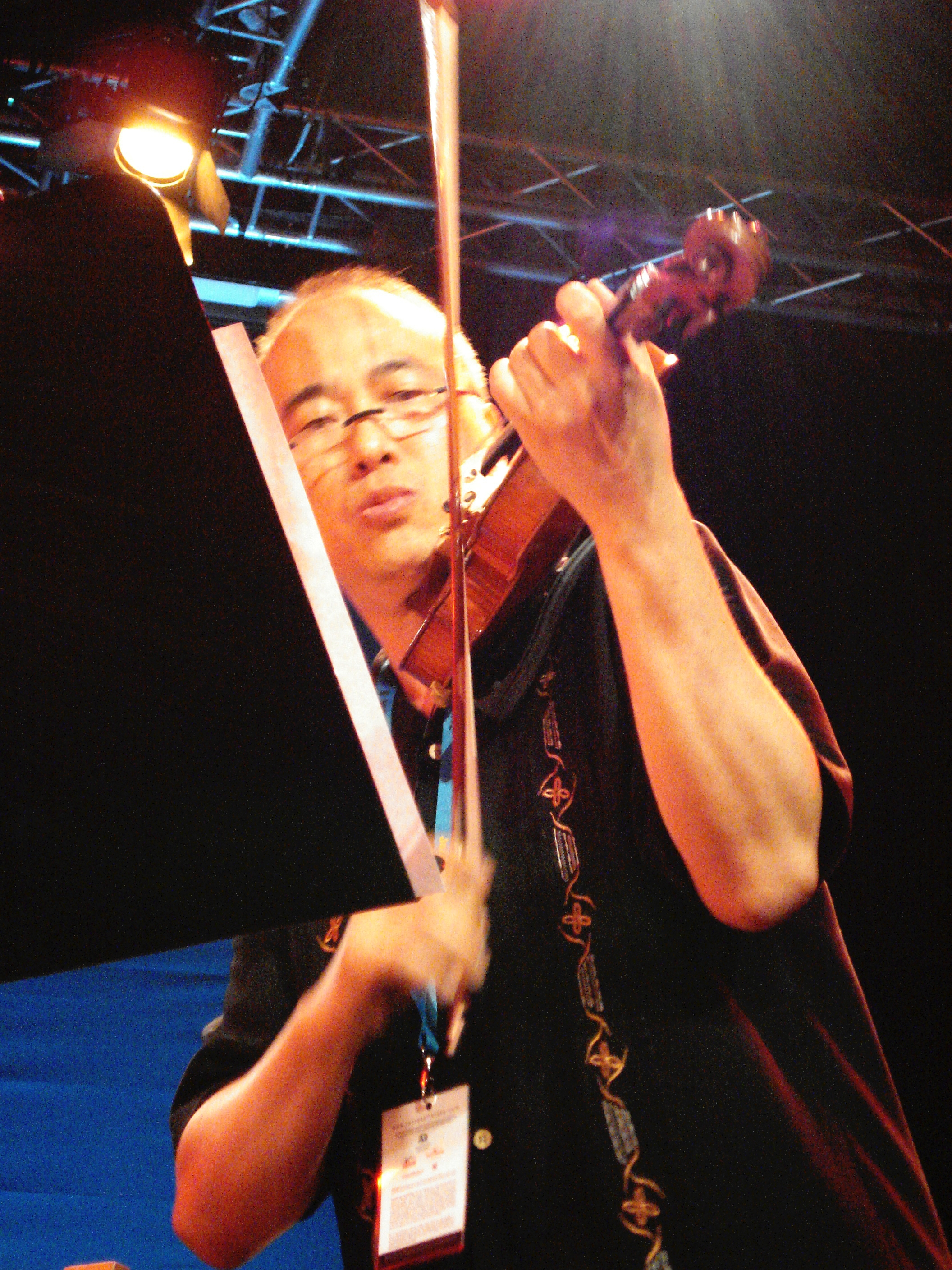 Jason Kao Hwang live at Saalfelden 2009